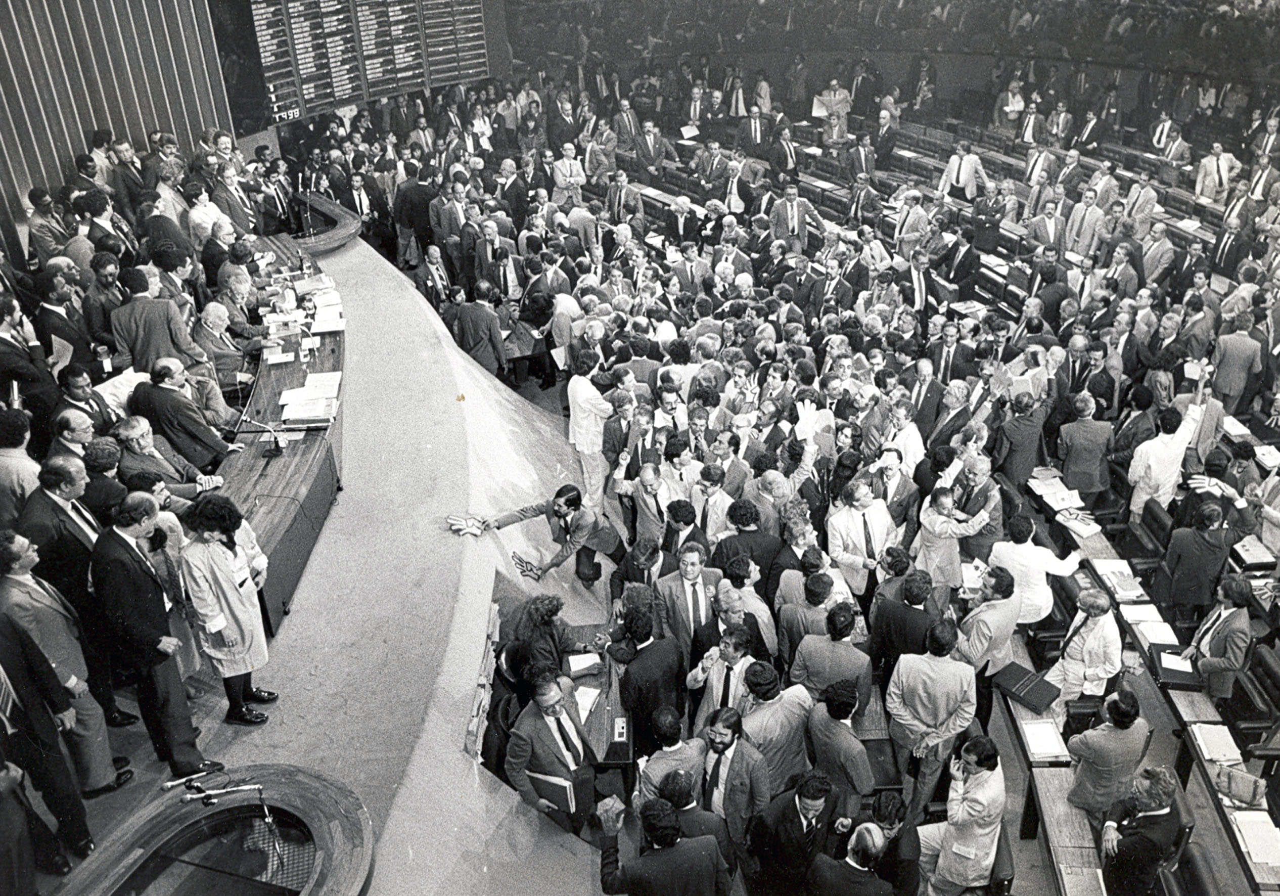 Final Parliamentary session of the 1988 Constitutional Congress that estabilished the current Constitution of Brazil.